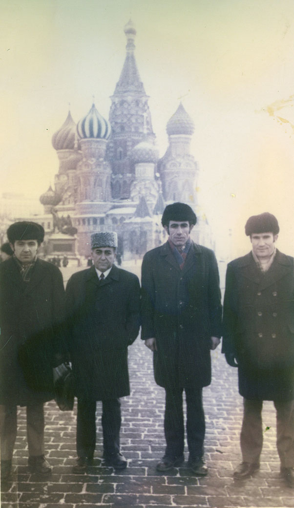 tədbir 2